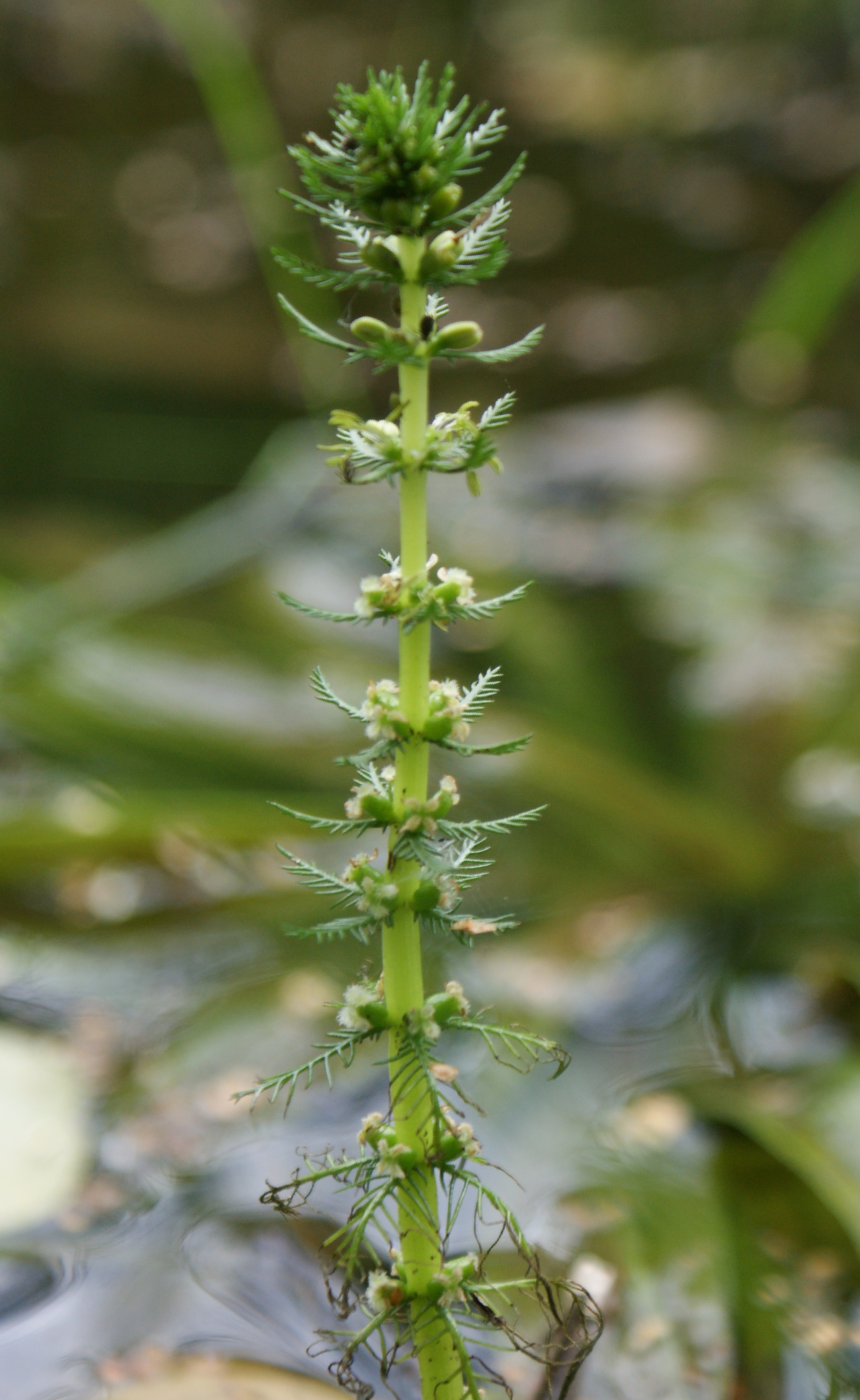 Myriophyllum verticillatum